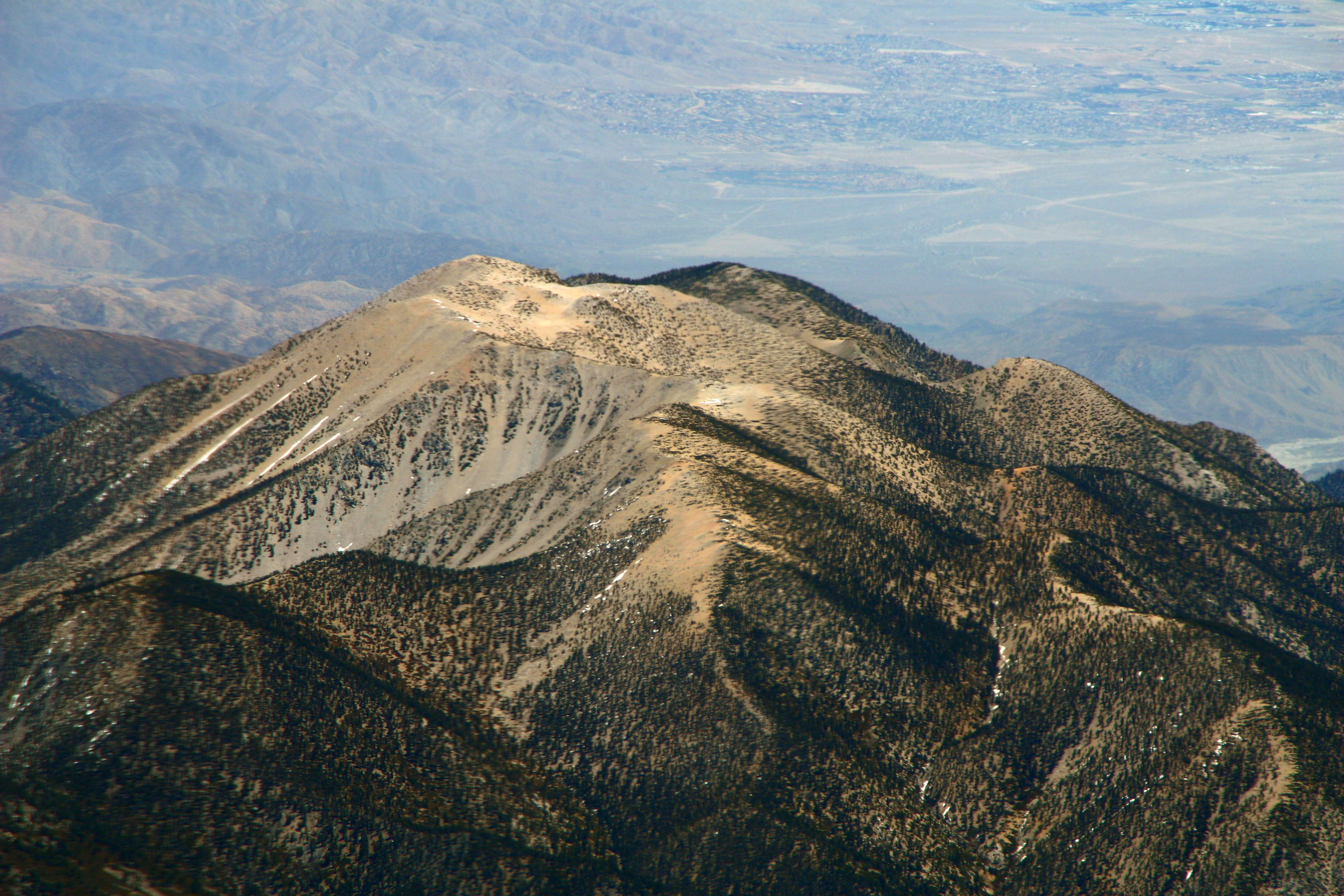 Mt. San Gorgonio, the highest mountain in Southern California. On a clear day it overlooks the whole Inland Empire and Los Angeles Basin.